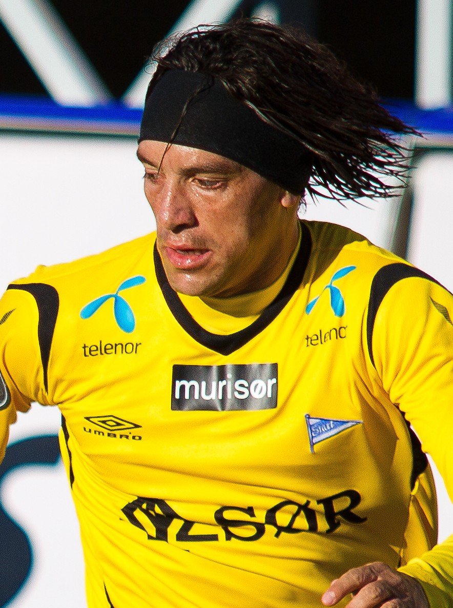 Christian Bolaños playing for IK Start.